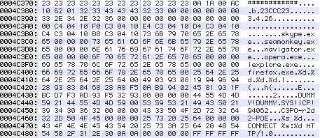 Hexdump of mfc42ul.dll (F-Secure name: Backdoor:W32/R2D2.A), a trojan program allegedly used by the German Federal Government for illegal computer surveillance (section identifying web browsers screen captures)